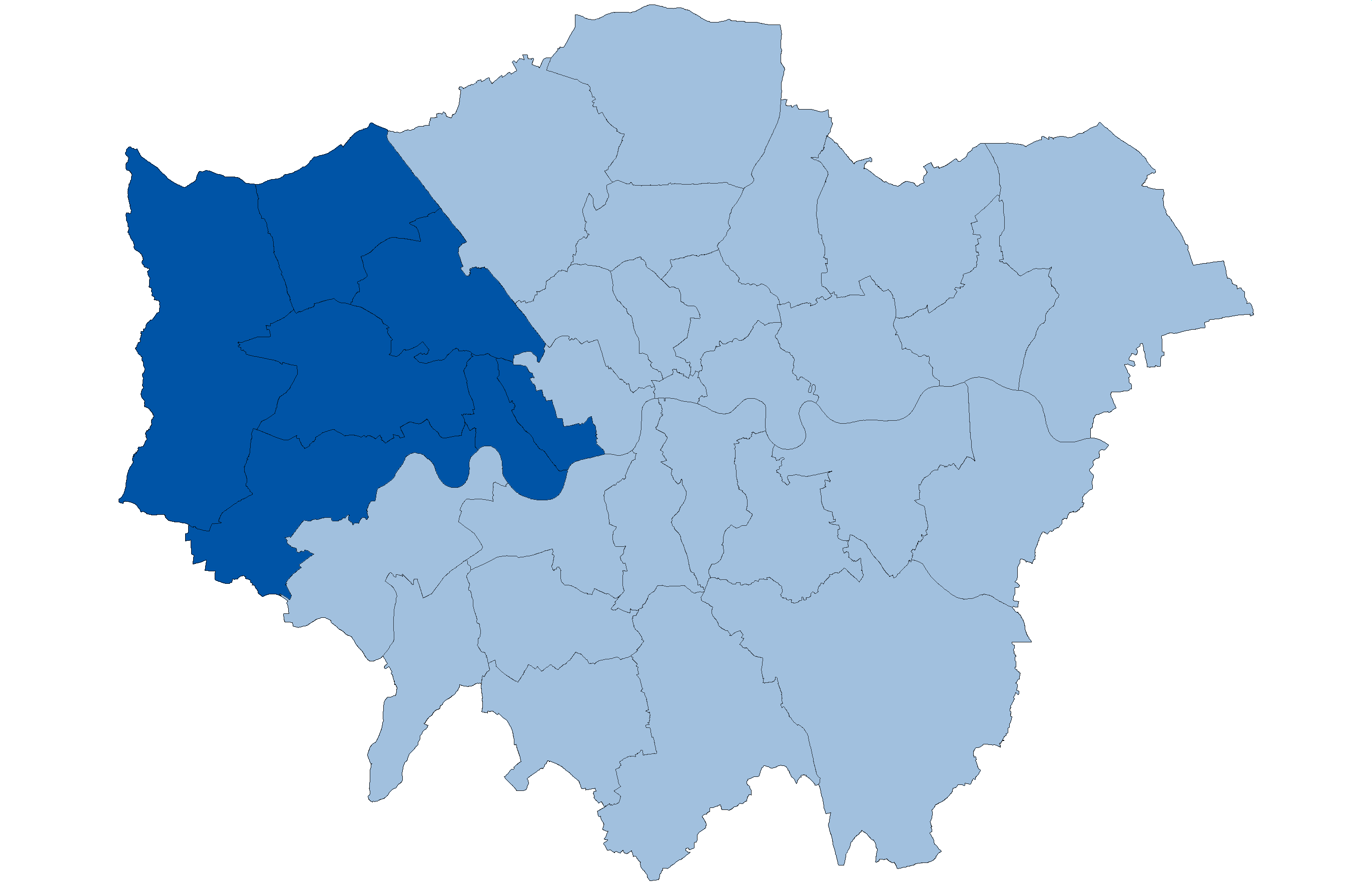 West sub region of Greater London established in 2008